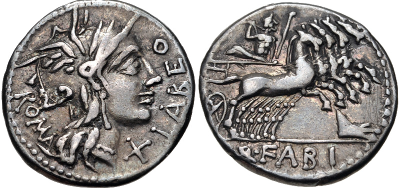 Q. Fabius Labeo. 124 BC. AR Denarius (18mm, 3.78 g, 7h). Rome mint. Helmeted head of Roma right; X (mark of value) below chin / Jupiter driving galloping quadriga right, hurling thunderbolt and holding reins and scepter; prow below. Crawford 273/1; Sydenham 532; Fabia 1. Good VF, toned, a few light cleaning scratches.